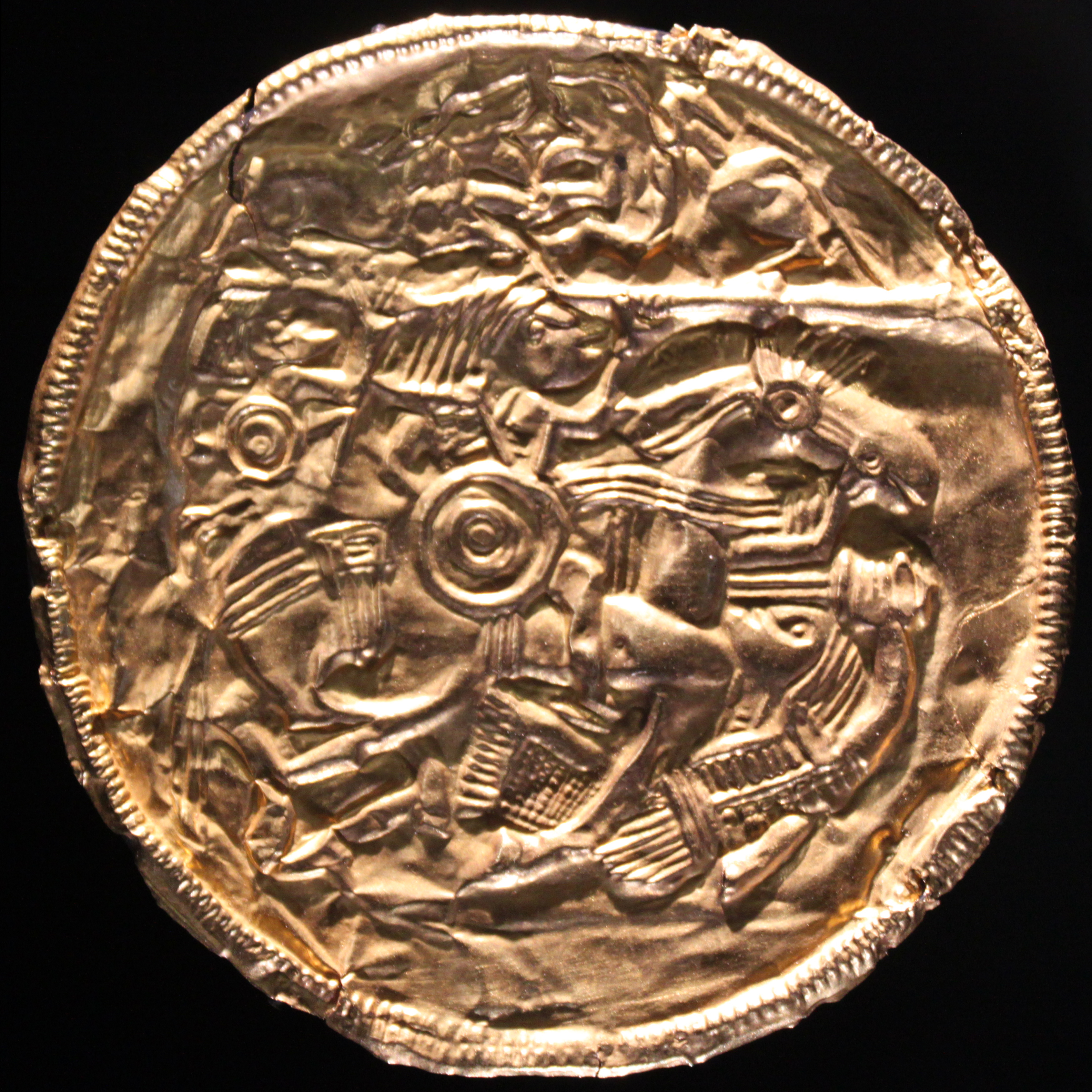 Gold disk with presentation of a horseman, 7th Century, Reutlingen Region, shown at the Landesmuseum Württemberg, Stuttgart, Germany